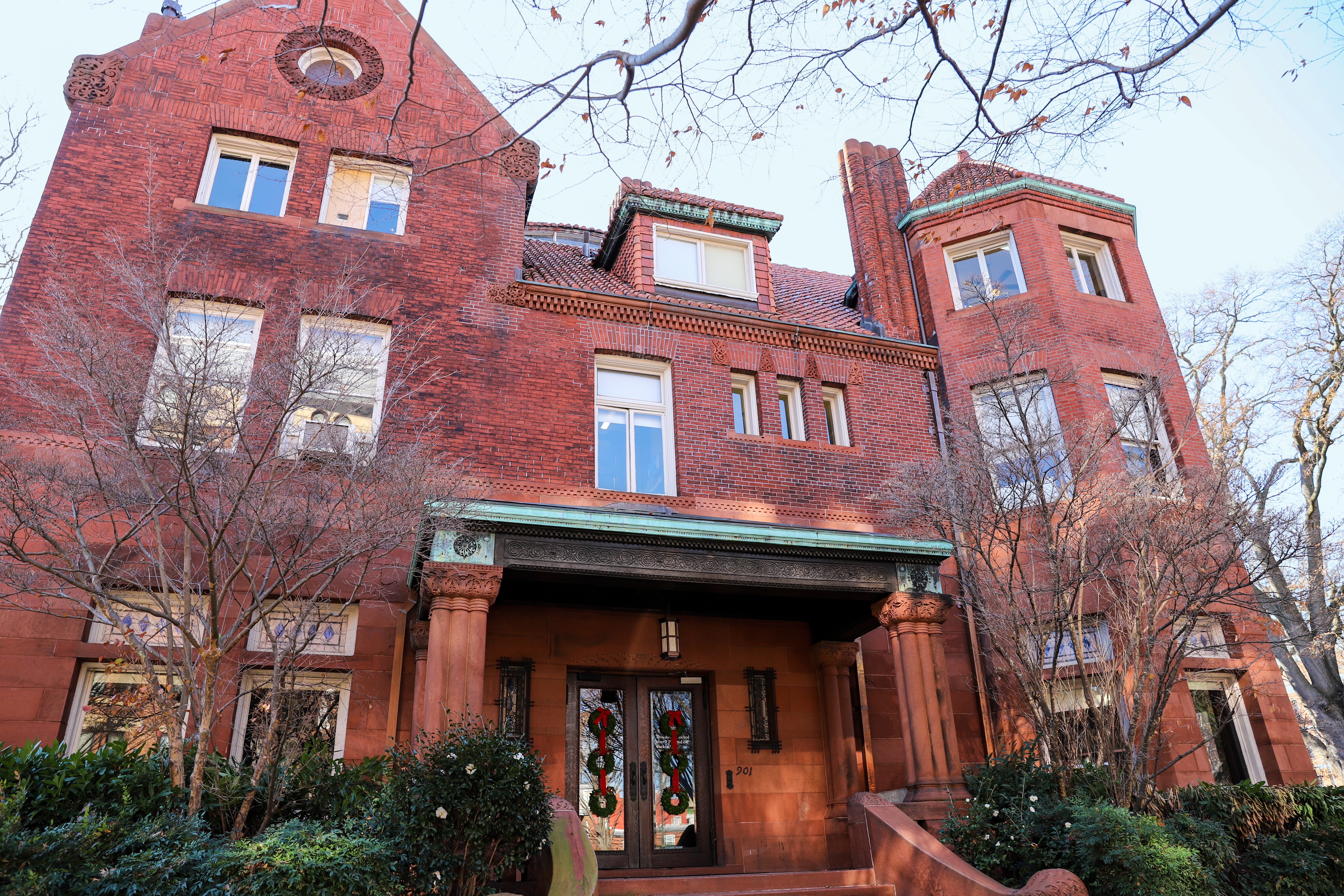 Home of Richmond businessman and philanthropist, Lewis Ginter (April 24, 1824 – October 1, 1897) 901 West Franklin Street, Richmond VA Built, 1892 Architect, Harvey Lindsley Page